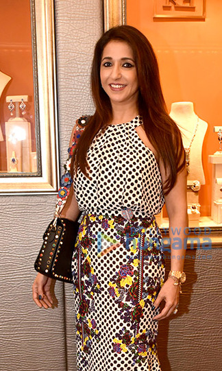 Krishika Lulla attend the launch of Farah Khan Ali’s 1st Monogram collection